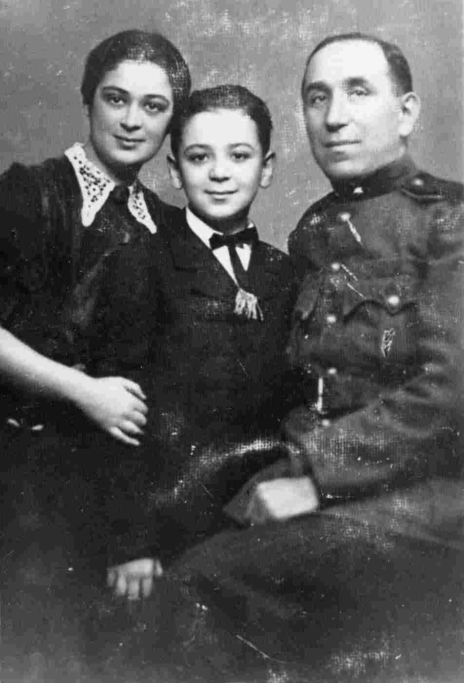 Alan Brown, age 10, with his parents, Erna Kallós Braun and Sandor Braun in Miskolc, Hungary, in 1938